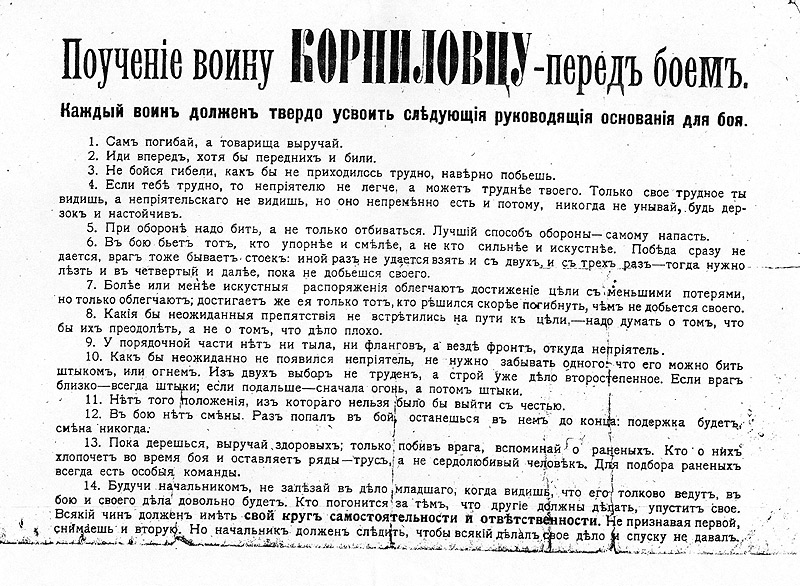 Copy of propaganda poster with word to staff of Kornilov (antibolshevik forces) regiment during Russian civil war.